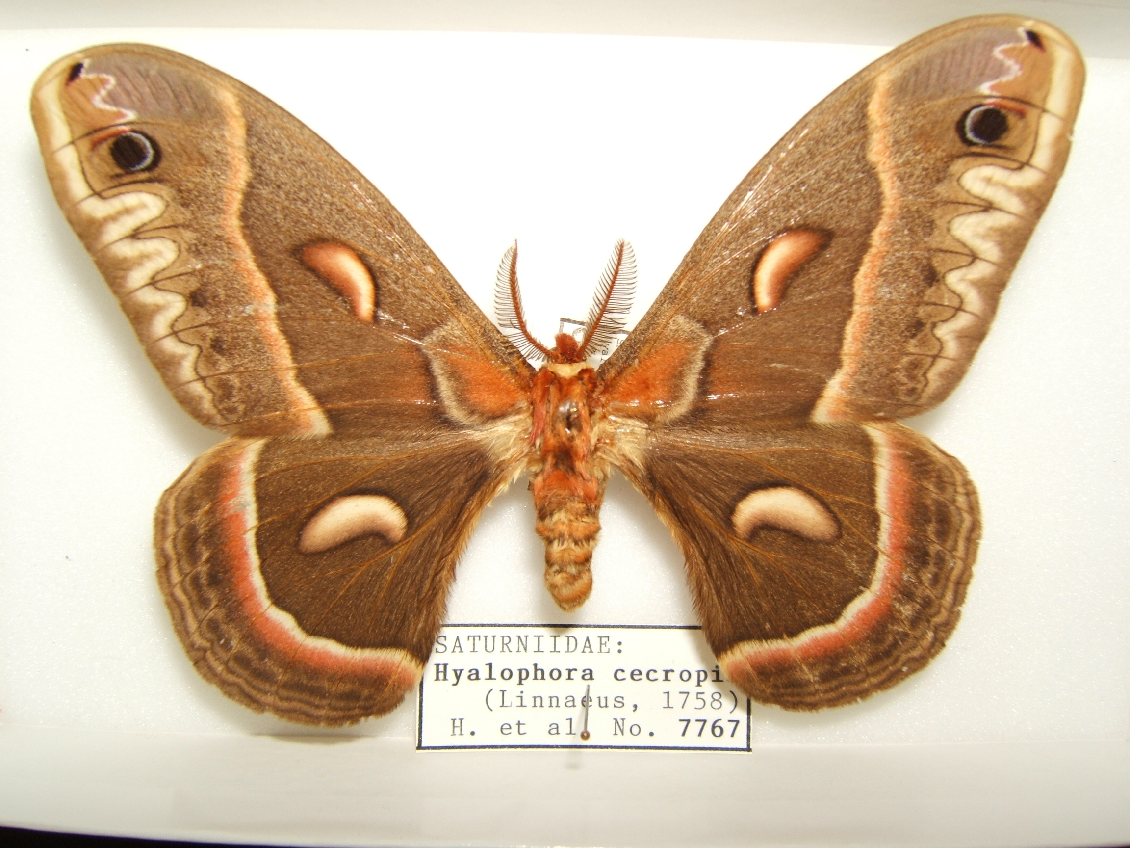 Hyalophora cecropia adult male taken by Shawn Hanrahan at the Texas A&M University Insect Collection in College Station, Texas.